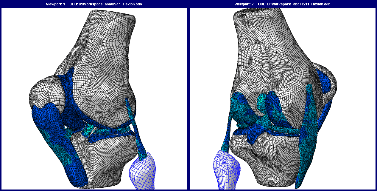 A finite element model of human knee joint (Naghibi Beidokhti et al. 2017)